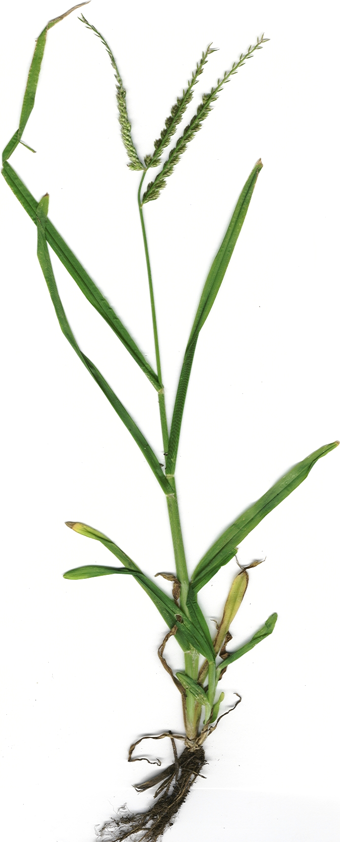 Eleusine indica (plant). Location: Maui, Waikapu